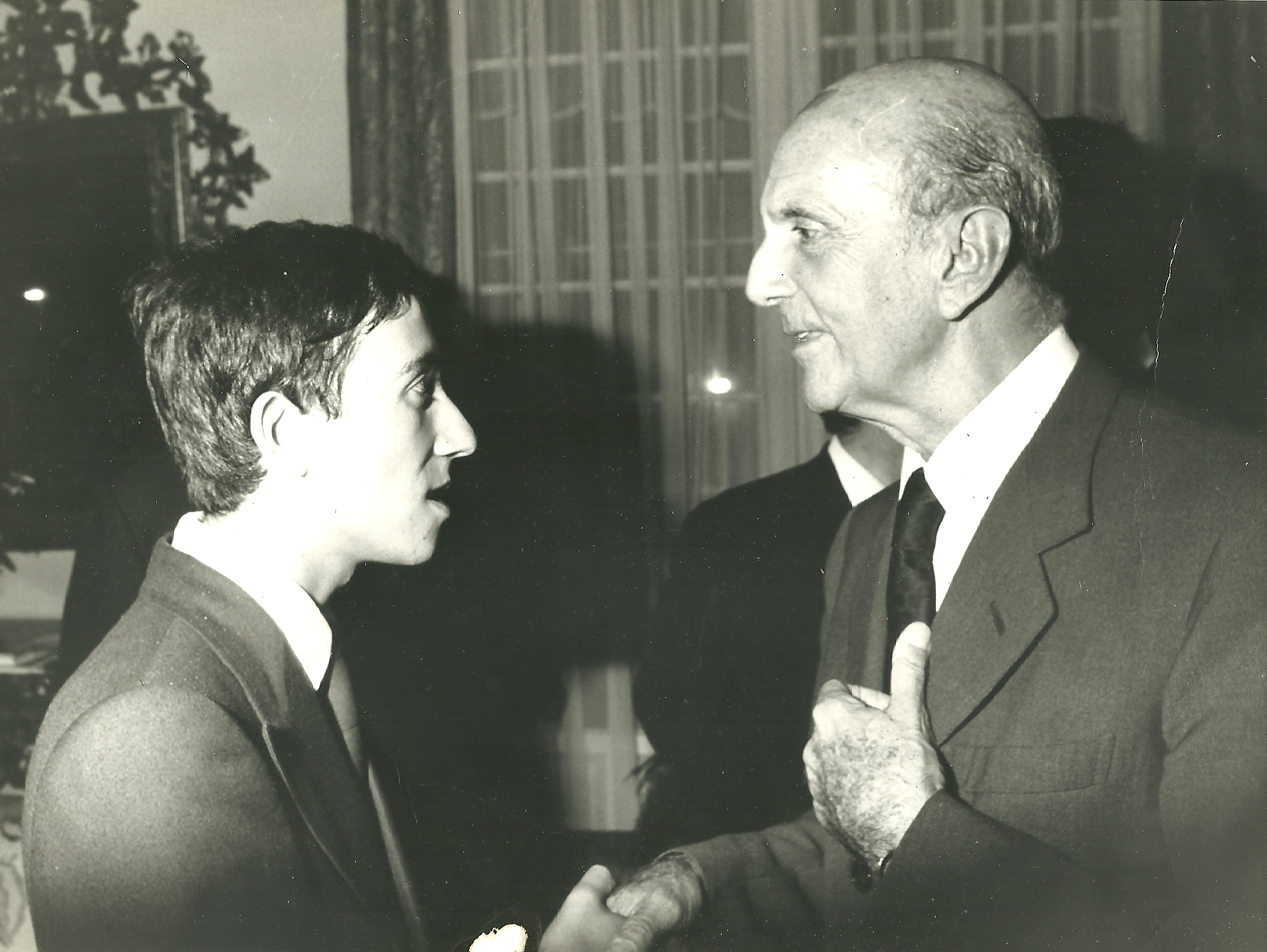 Mr parisi with King Umberto II